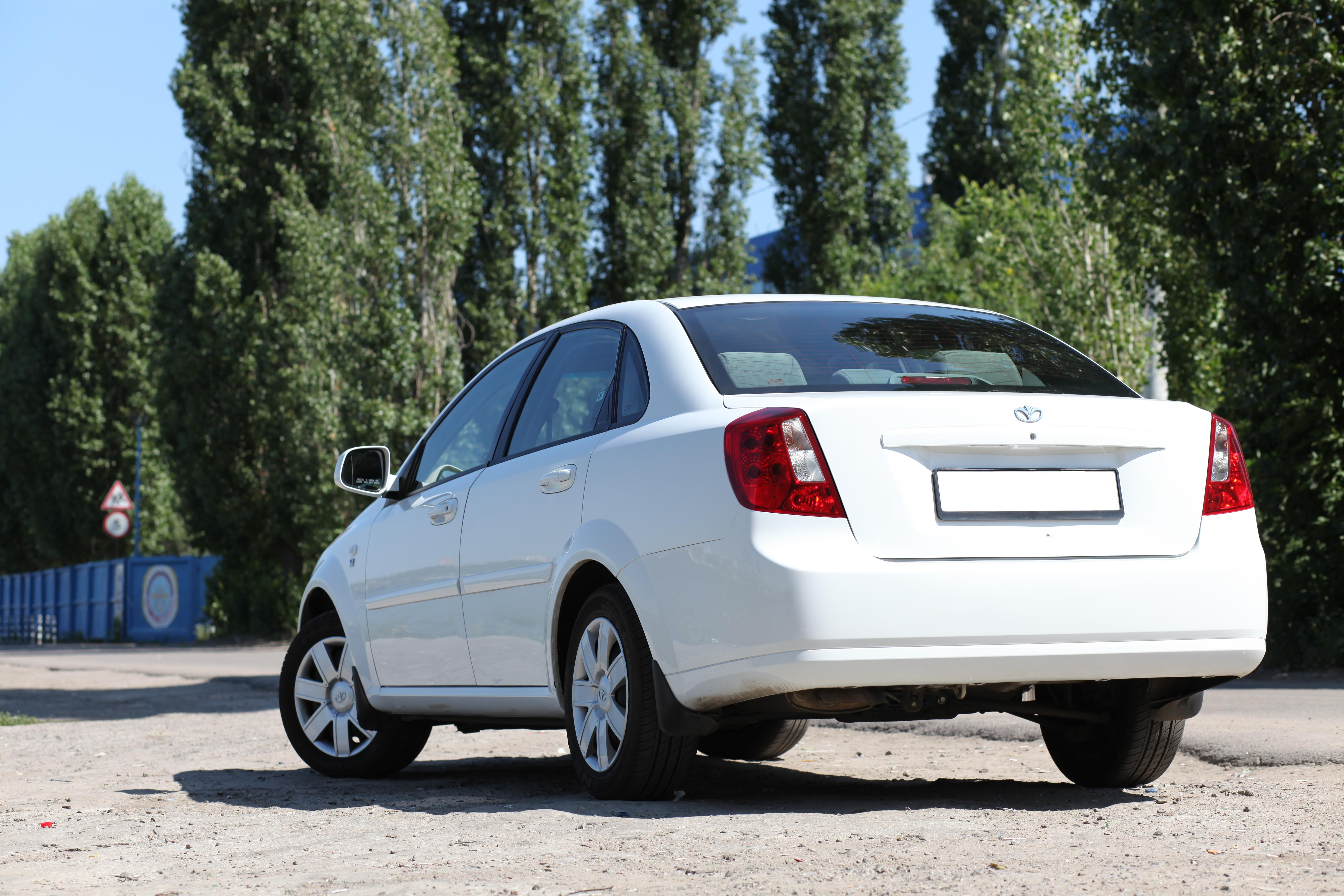 Daewoo Gentra